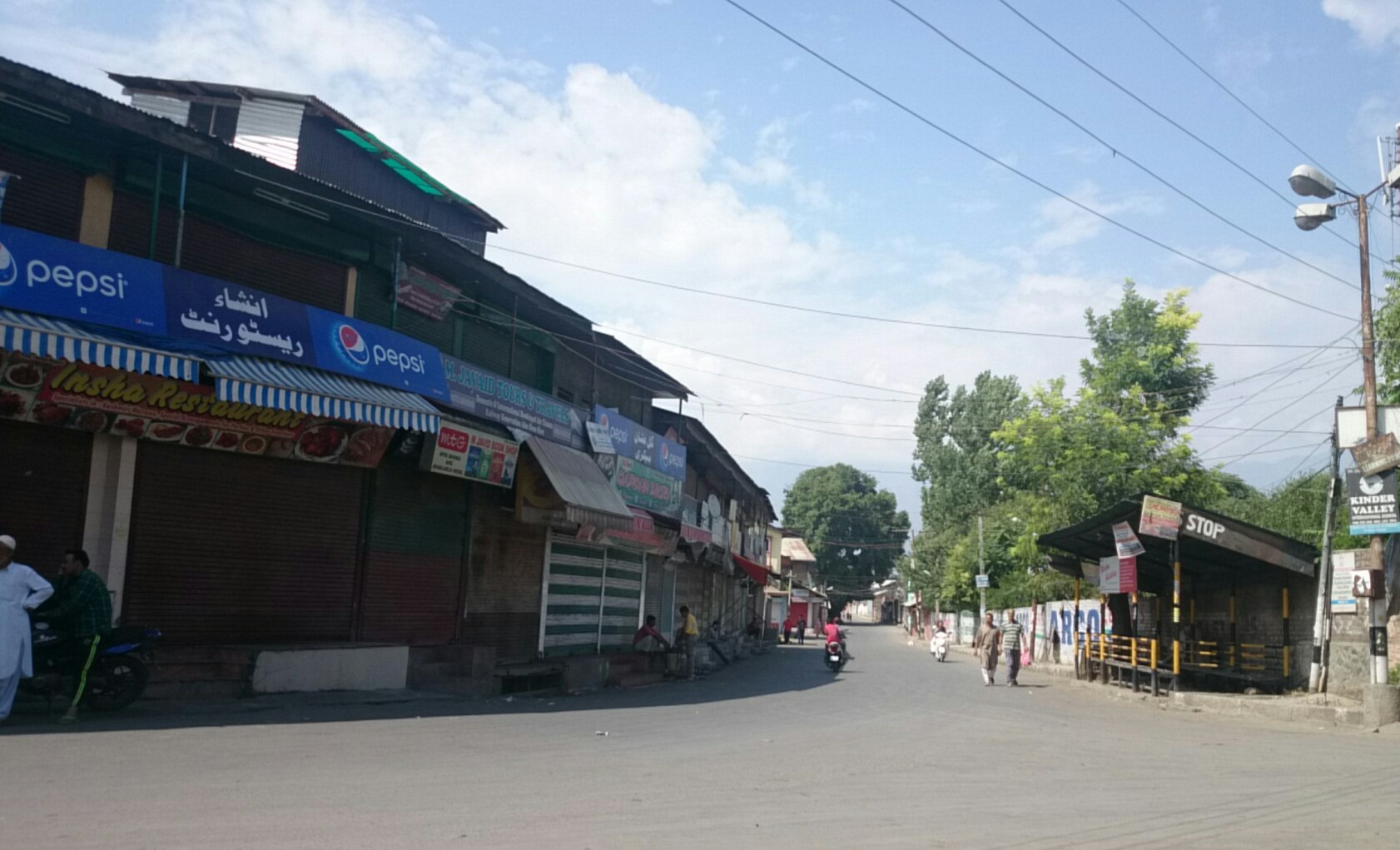 A view of Lal Bazar during holiday.